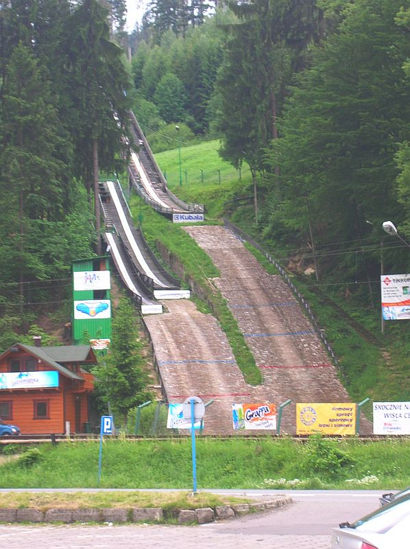 Small hills for ski jumping in the centre of Wisła, Poland